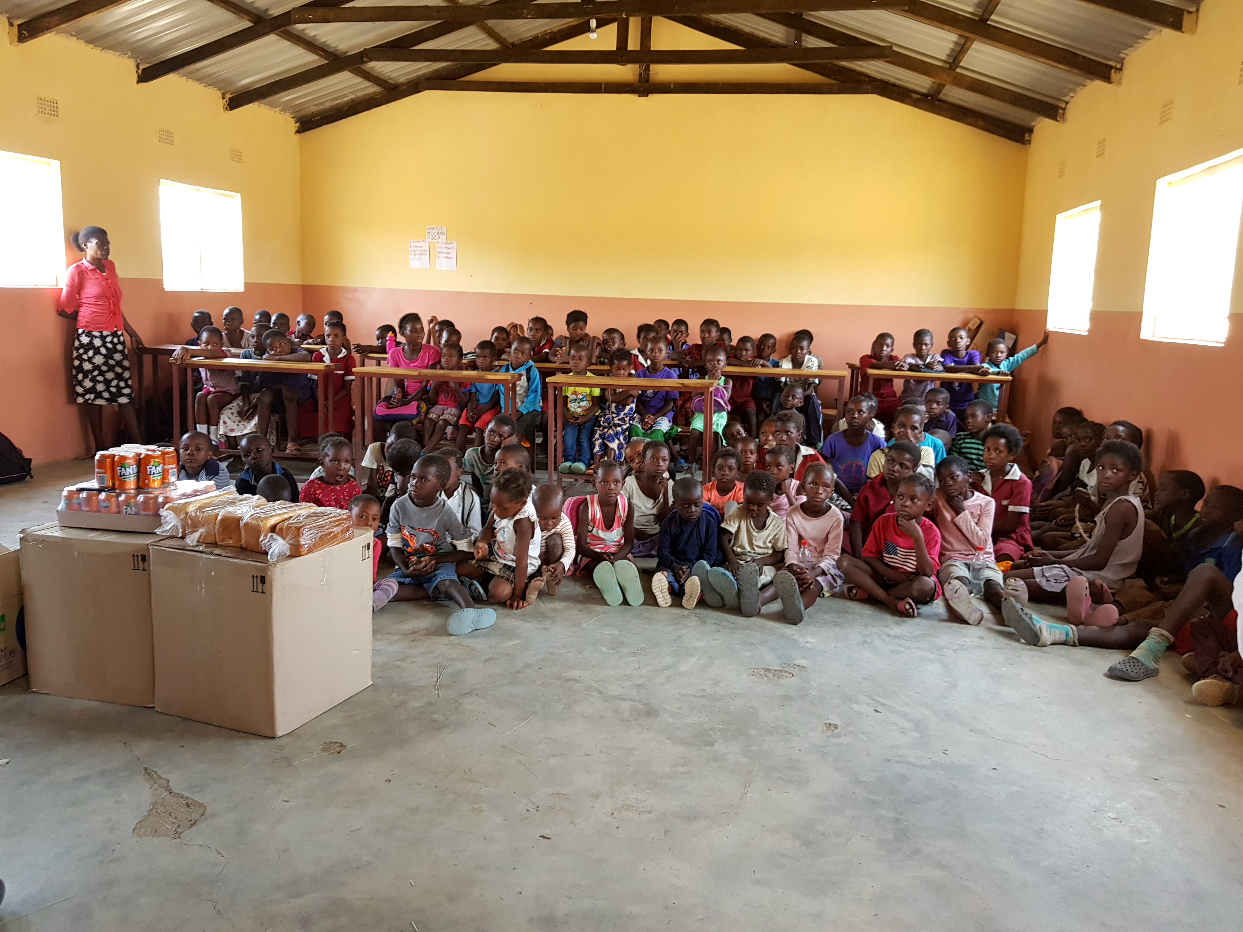 This is an image with the theme "Africa on the Move or Transport" from: Zambia